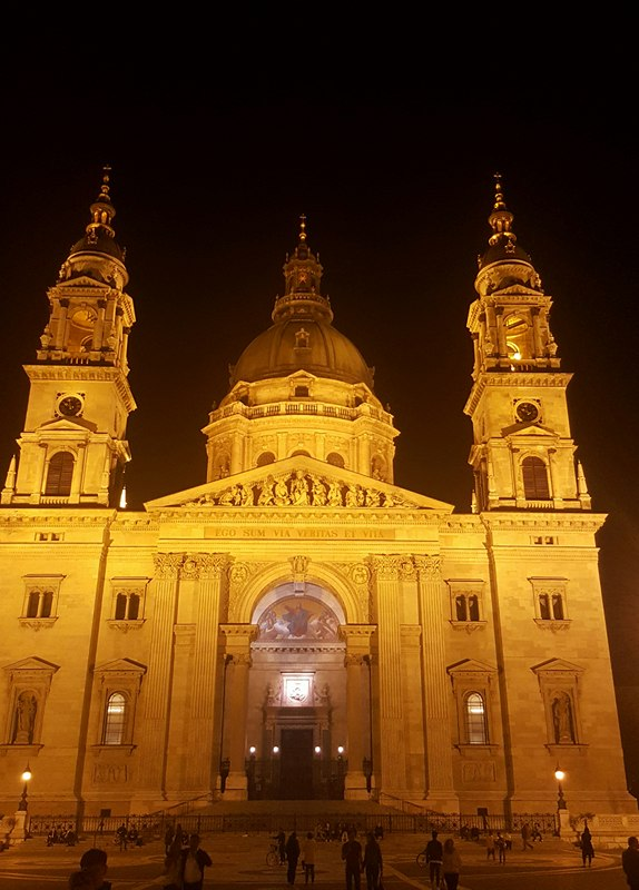 It is an image captured in May 2017